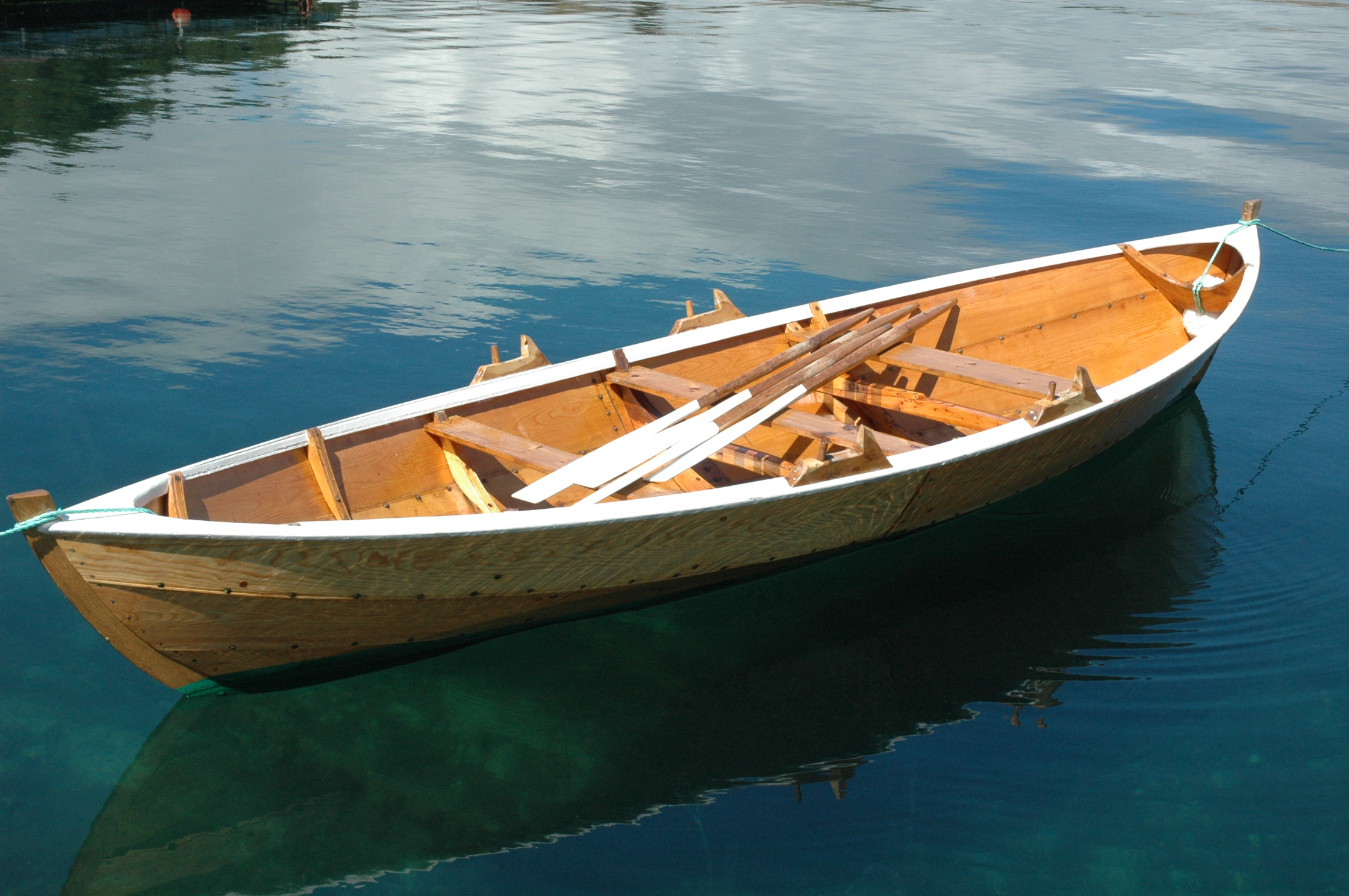 Typical Norwegian wooden boat